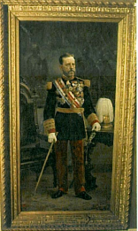 Retrato del Capitán General Mariano Weyler Nicolau (1910)